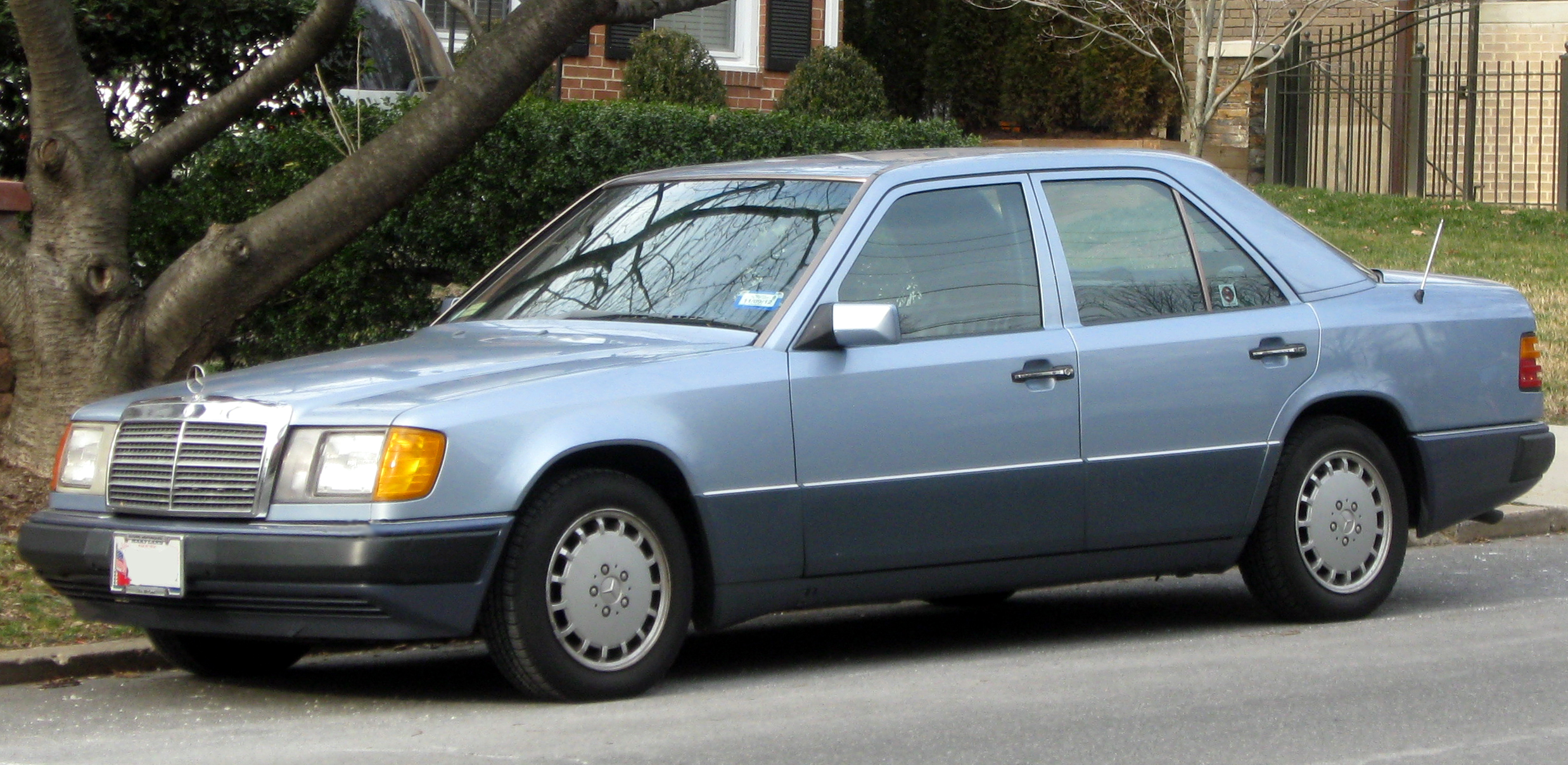 Mercedes-Benz 300E photographed in Washington, D.C., USA.